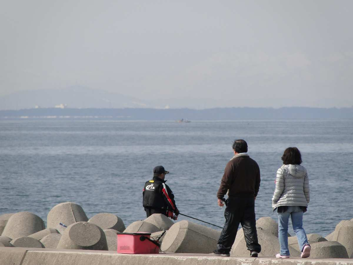 Mirage_from_Muraki-seashore